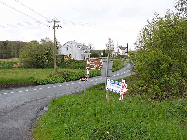 Road junction at Ballyduff The R208 main road runs from Carrick-on-Shannon to Ballinamore. The Kingfisher Trail, the first long-distance cycle route to be established in Ireland, comes in to the junction from the left and exits towards the camera.